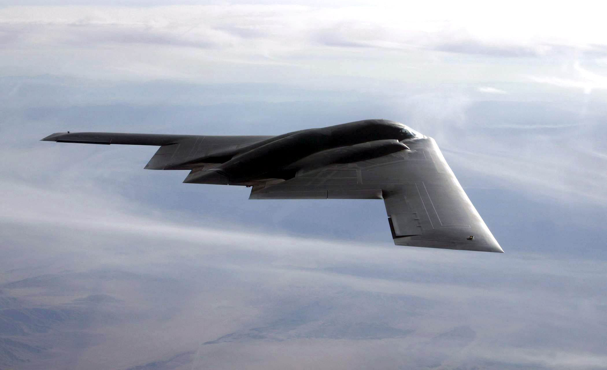 FILE PHOTO -- The B-2 Spirit is a multi-role bomber capable of delivering both conventional and nuclear munitions. A dramatic leap forward in technology, the bomber represents a major milestone in the U.S. bomber modernization program. The B-2 brings massive firepower to bear, in a short time, anywhere on the globe through previously impenetrable defenses. (U.S. Air Force photo by Bobbie Garcia)